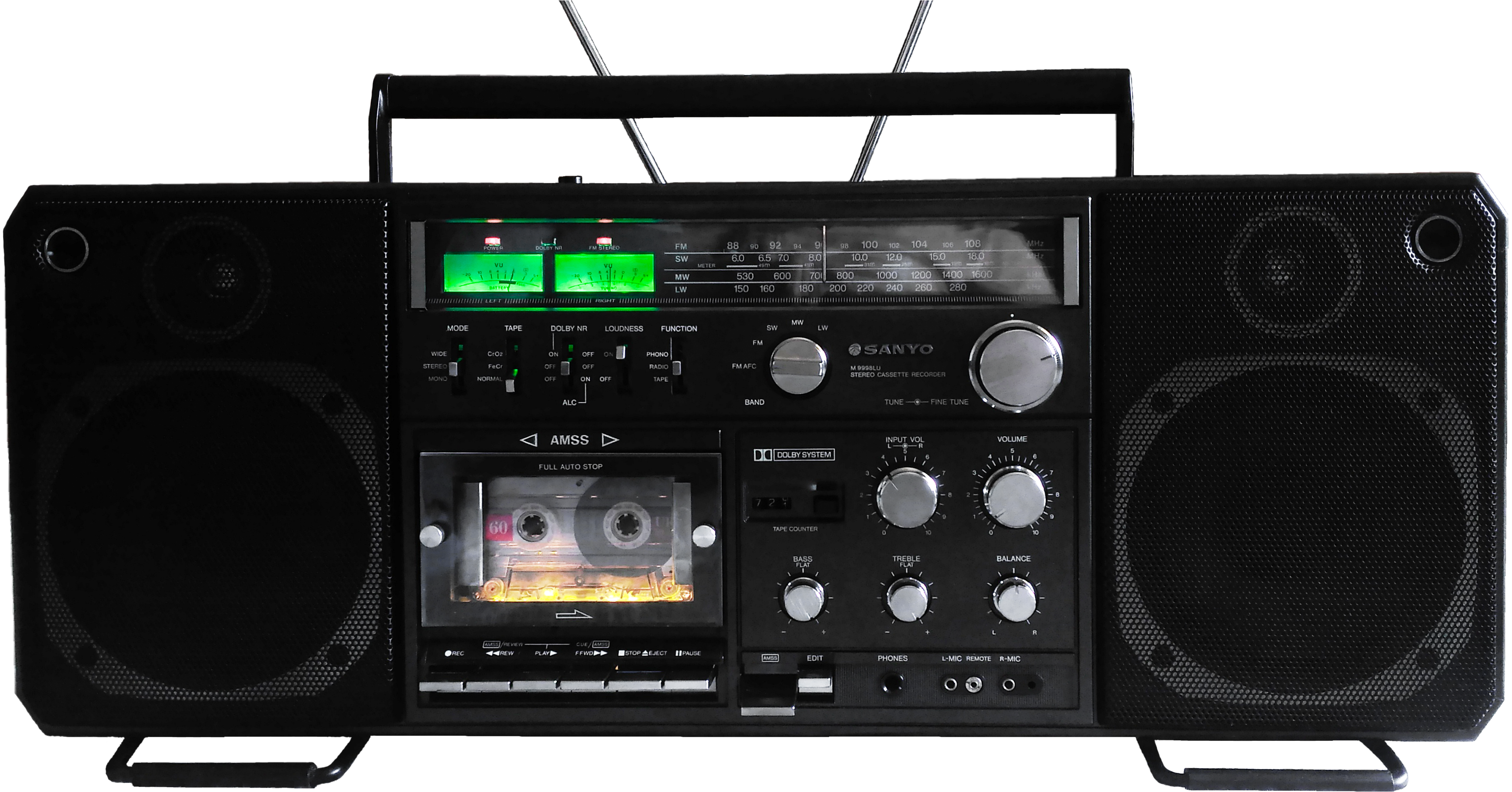 Sanyo M9998LU, manufactured circa 1979-80 in Japan - this is the European version of the M9998. Unlike the US M9998, it has the Long Wave band, only one Short Wave and fine tuning for all AM bands. Also it has a DIN socket for REC in/out and RCA sockets only for phono/pick-up. 2 x 8 W RMS, 2 way speakers. Dolby B for REC/Playback and Automatic Music Search System. Operates on 10 D Cell batteries, external power adapter or 230/115V mains. This unit has been customized - the incandescent bulbs have been replaced with LEDs.